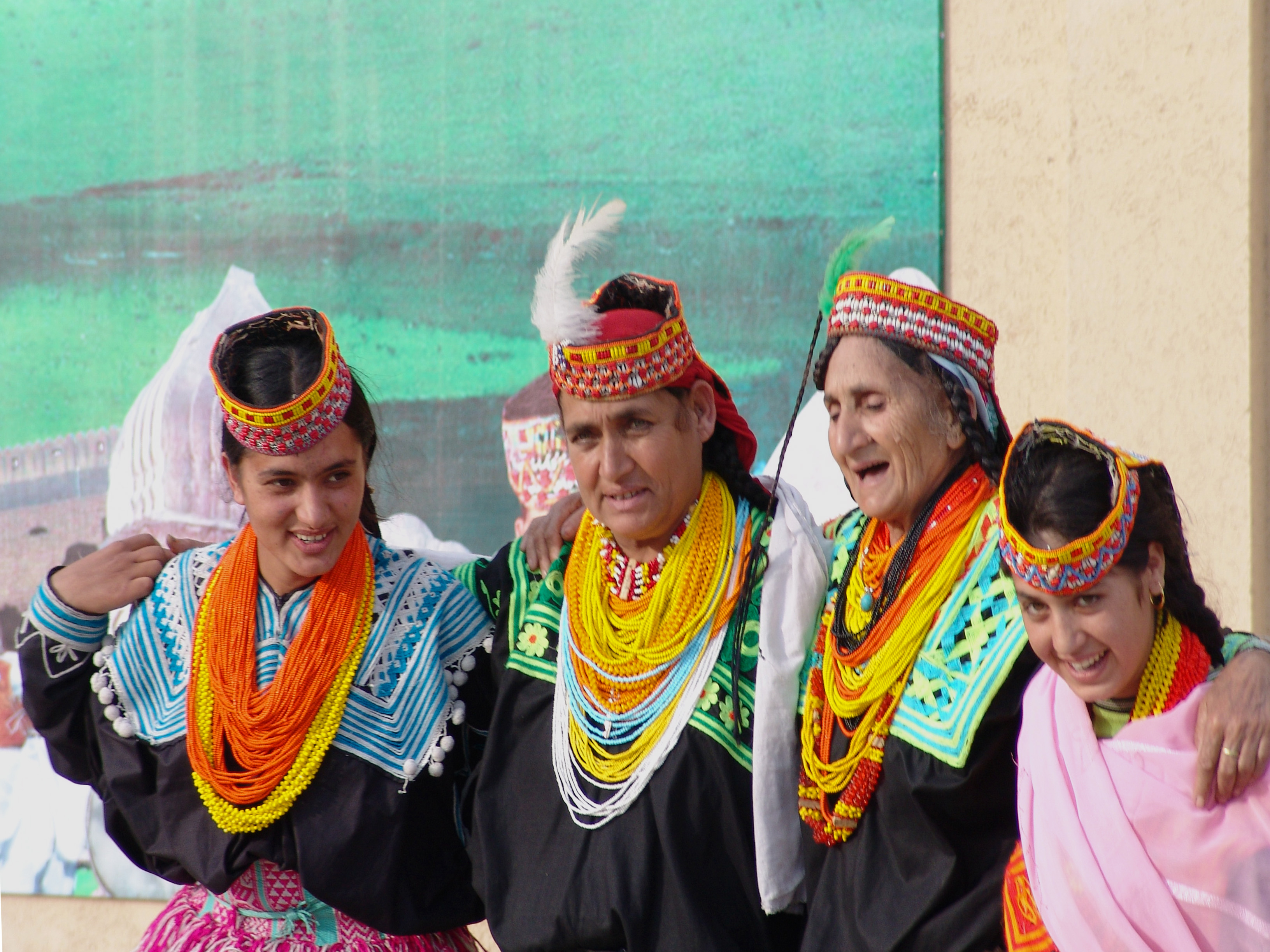 'Smiles from the valley of Kalash' (Women of the Kalasha of Chitral, in traditional clothing)